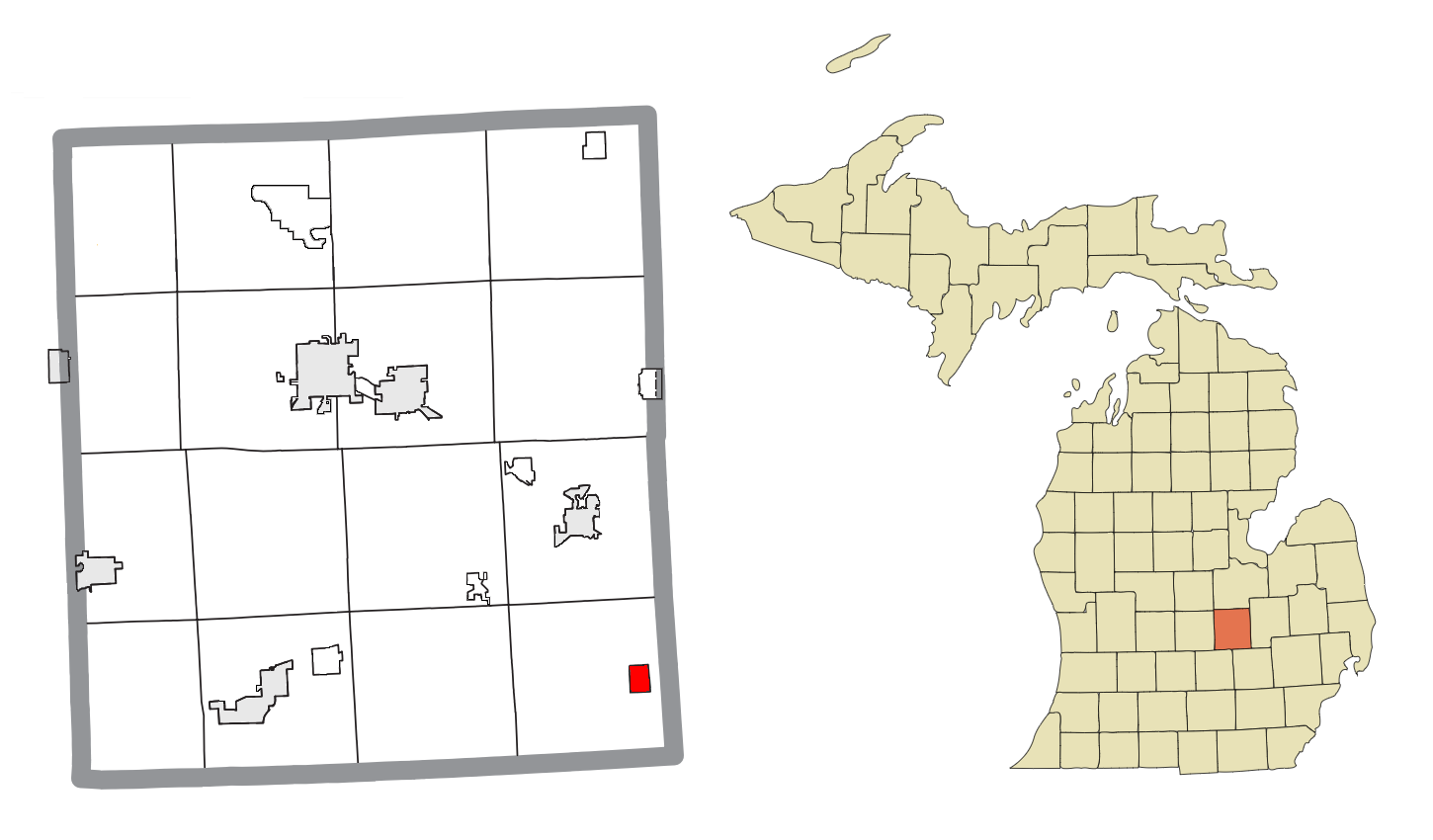 Byron, MI